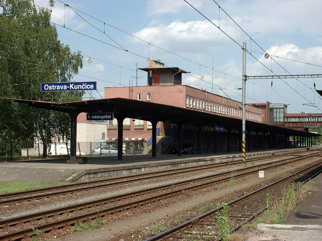 The building of Ostrava-Kunčice railway station